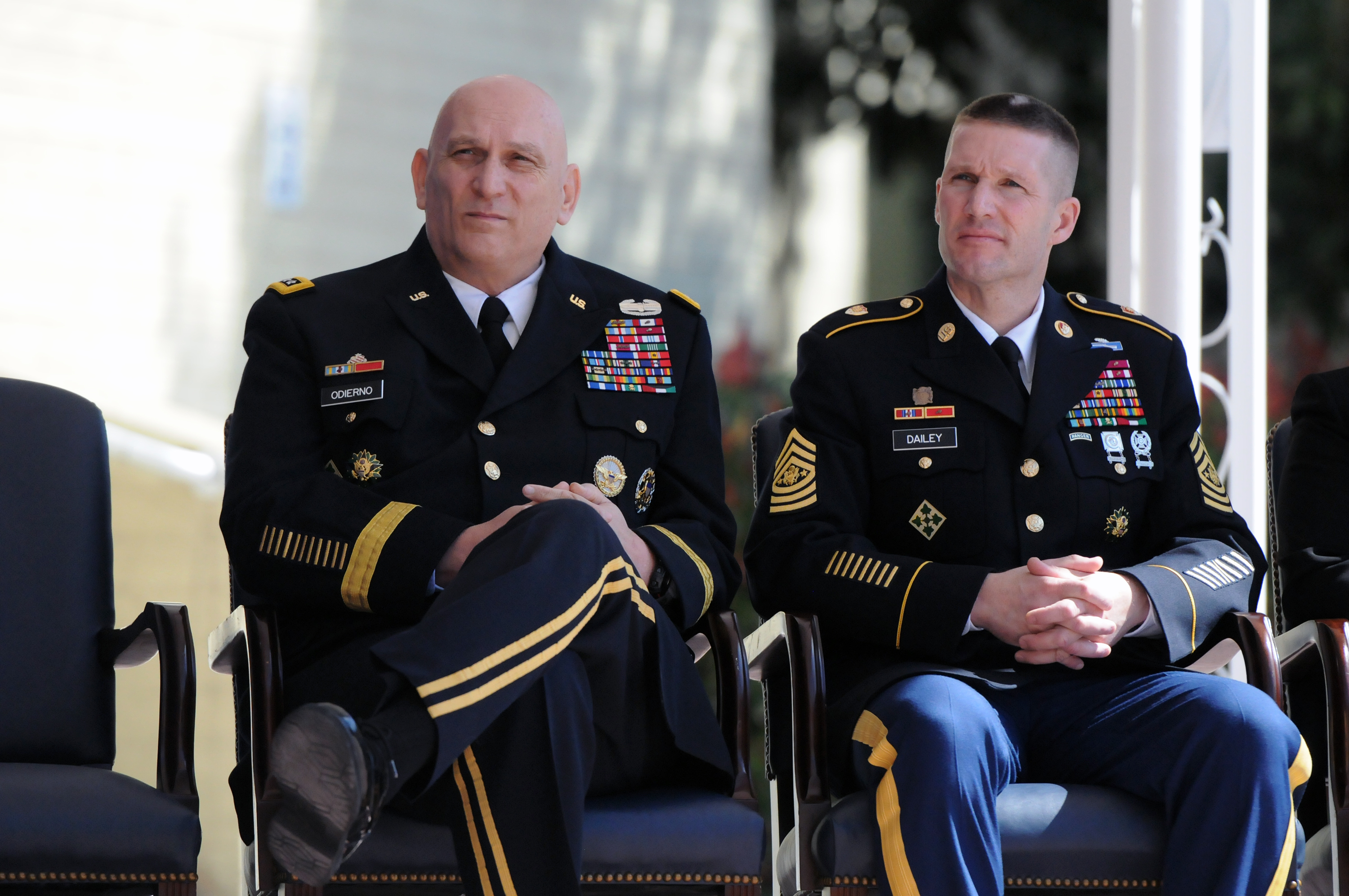 Army Gen. Raymond Odierno, chief of staff of the Army, and Sgt. Maj. of the Army Daniel Dailey listen during a Headquarters, Department of the Army observance ceremony marking the start of Sexual Assault Awareness and Prevention Month, April, at the Pentagon Courtyard, March 31, 2015. (U.S. Army National Guard photo by Sgt. 1st Class Jim Greenhill) (Released)